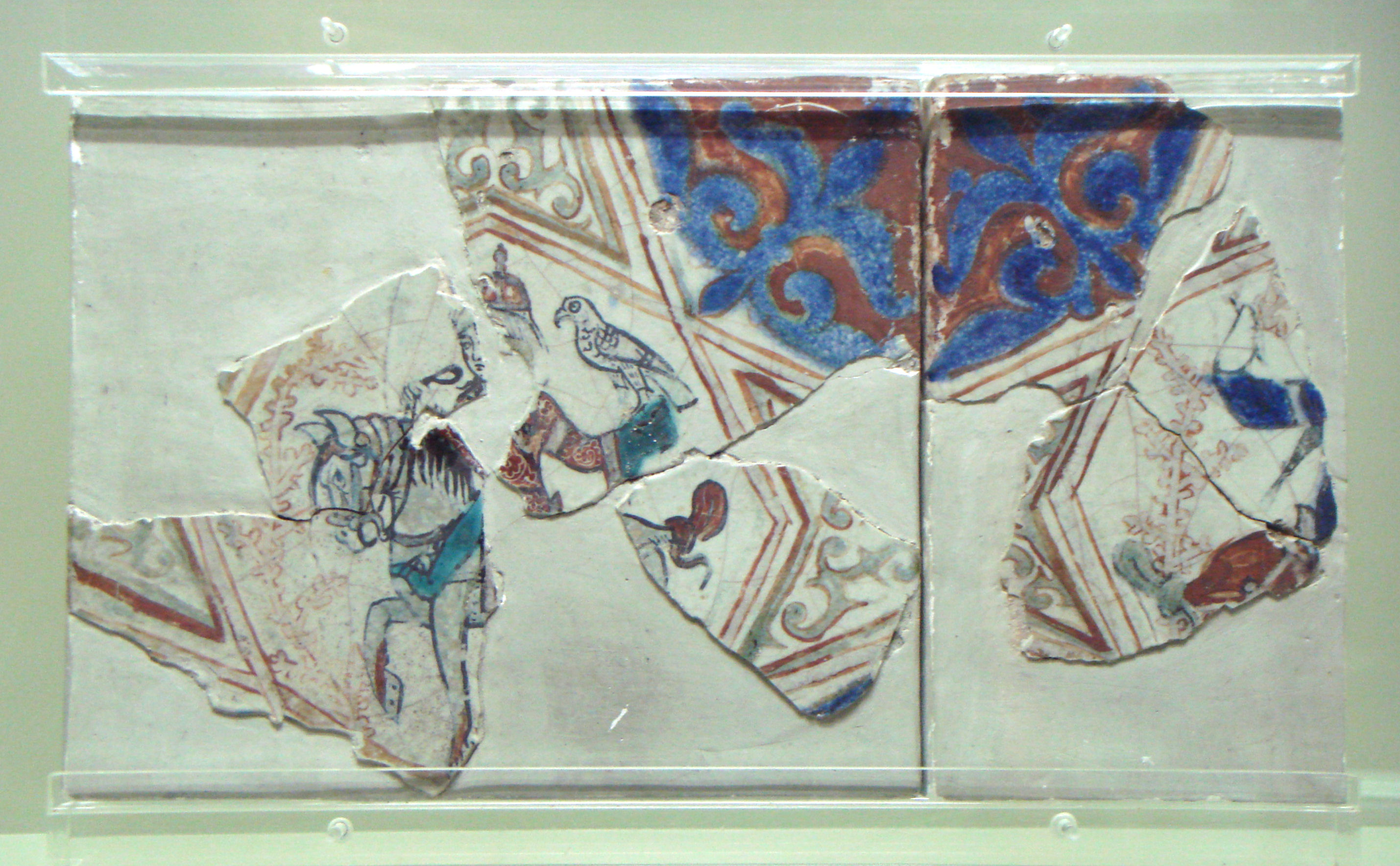 Glazed_Anatolian_Seljuq_tile Konya_2nd_half_of_12th_century.